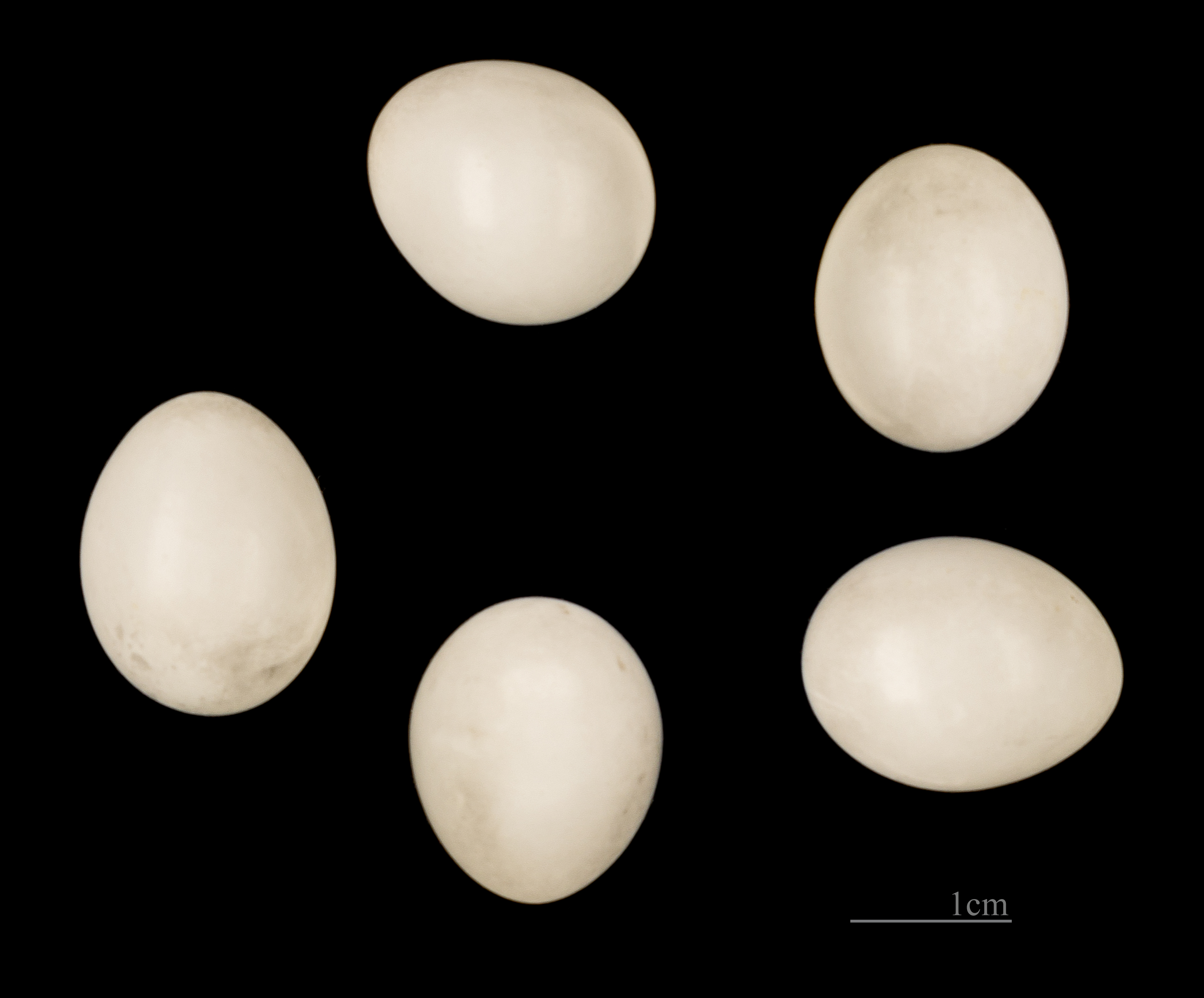 Egg of Lesser Spotted Woodpecker. Collection of Henri Heim de Balsac/Jacques Perrin de Brichambaut.